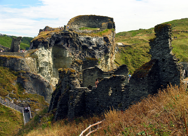 Tintagel Castle Ruins. A view of the section of the castle on the Island.